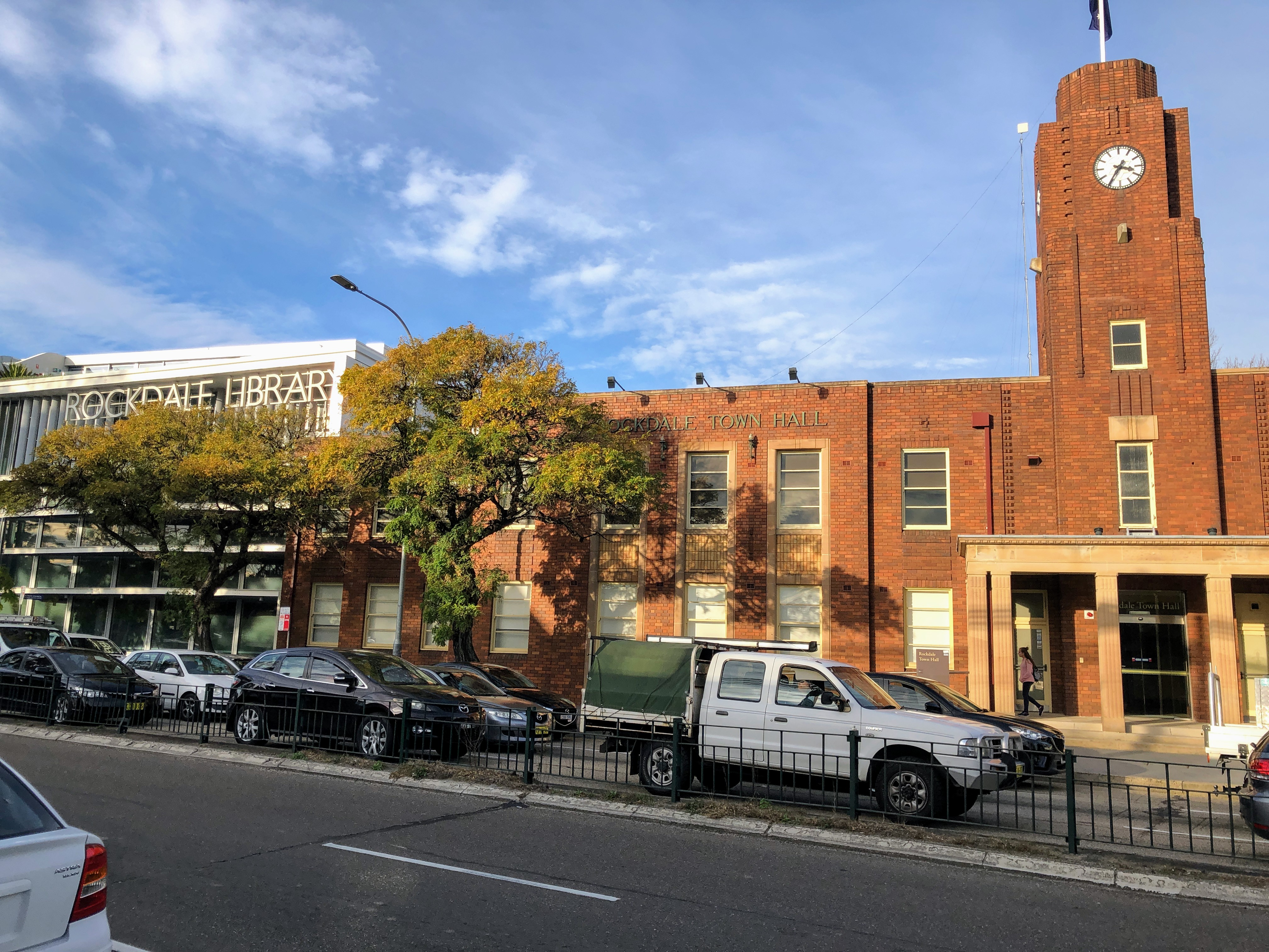 Rockdale town hall and library's 2019 view from across Princes Highway.